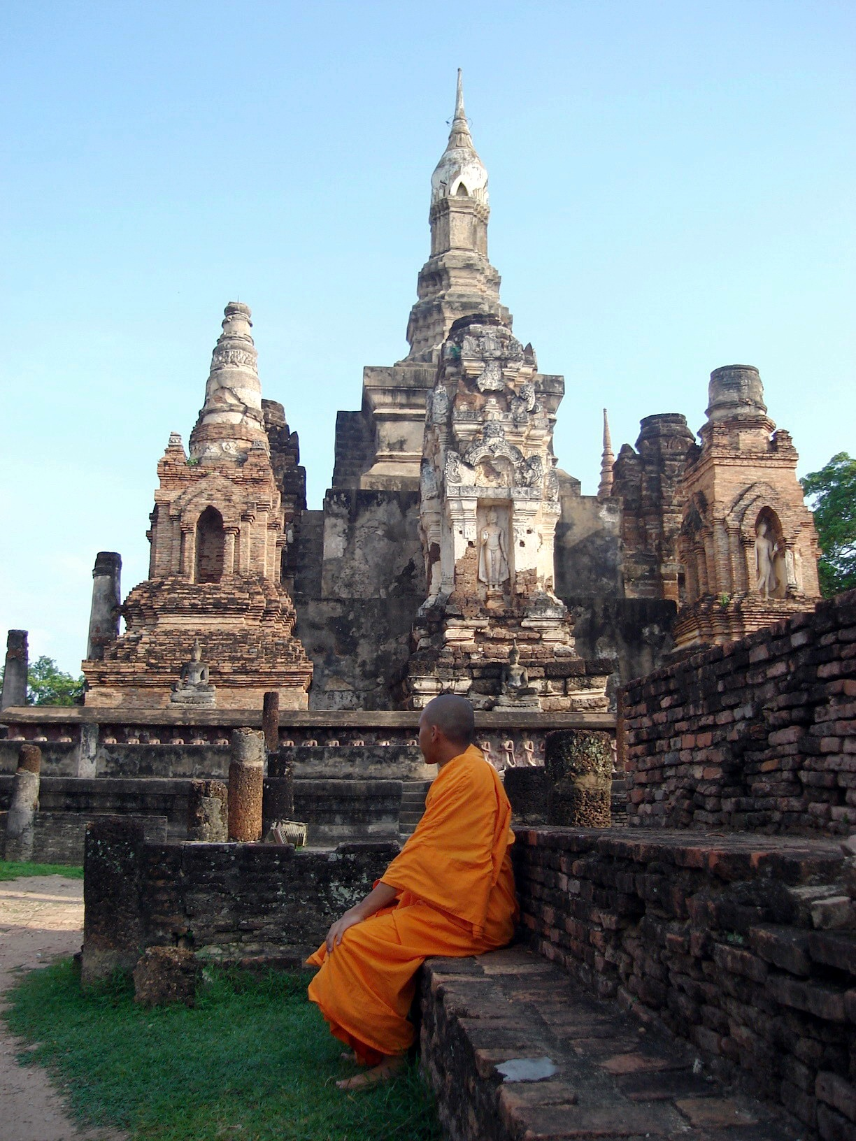 Wat Mahathat.Sukhothai Thailand.